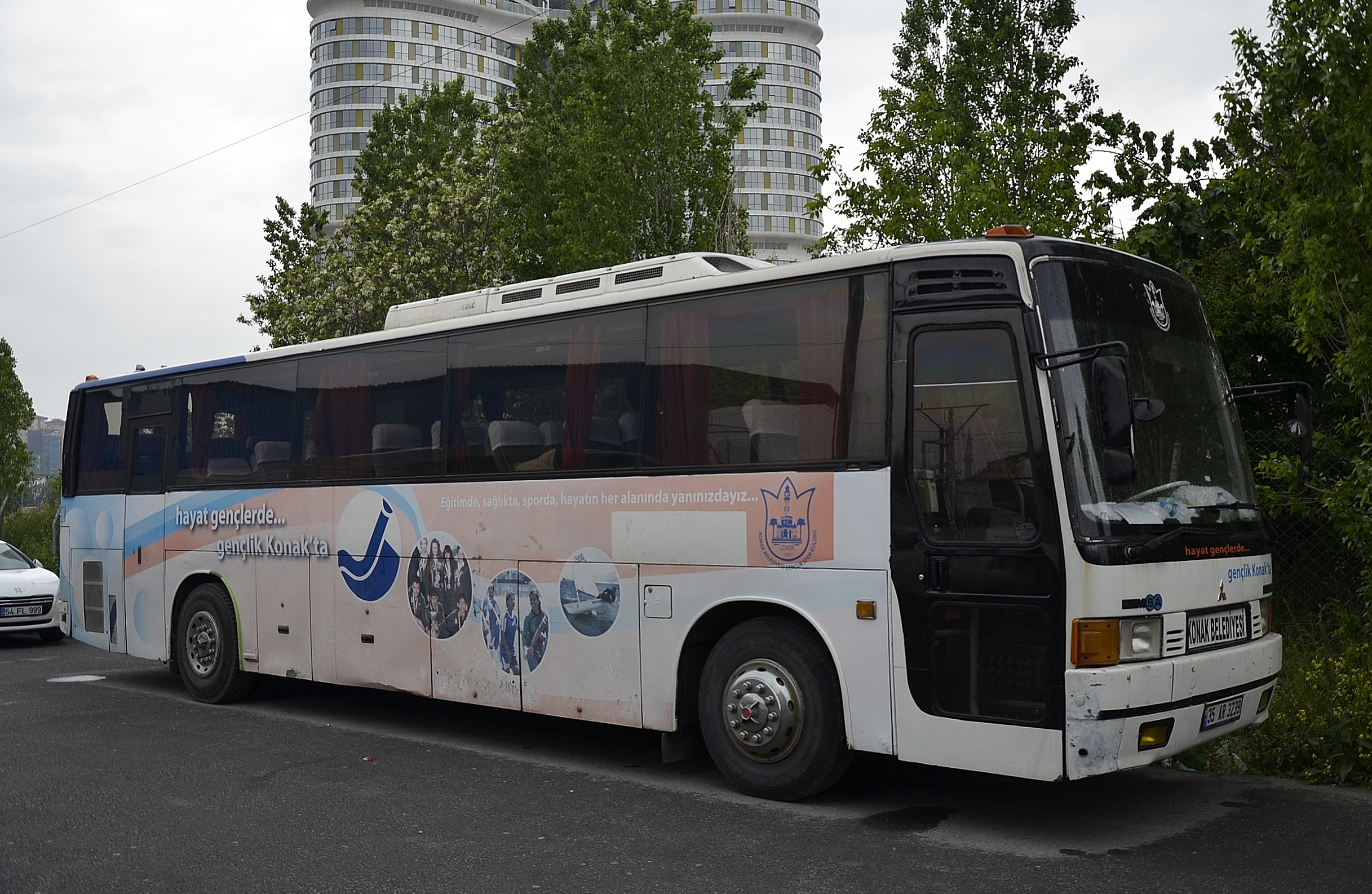 Club bus of Konak Belediyespor